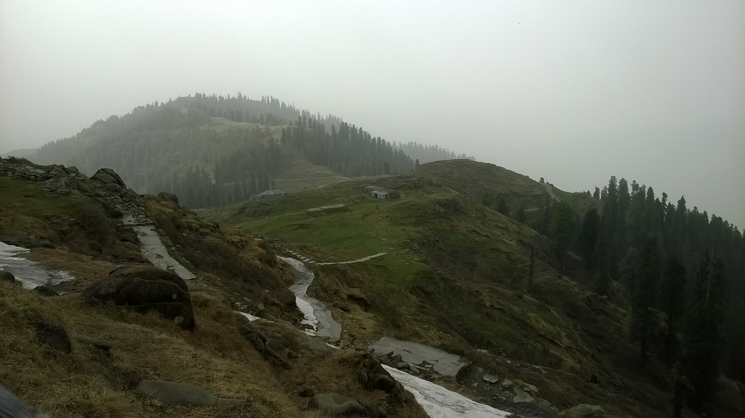 Beautiful View from Toli Per Top